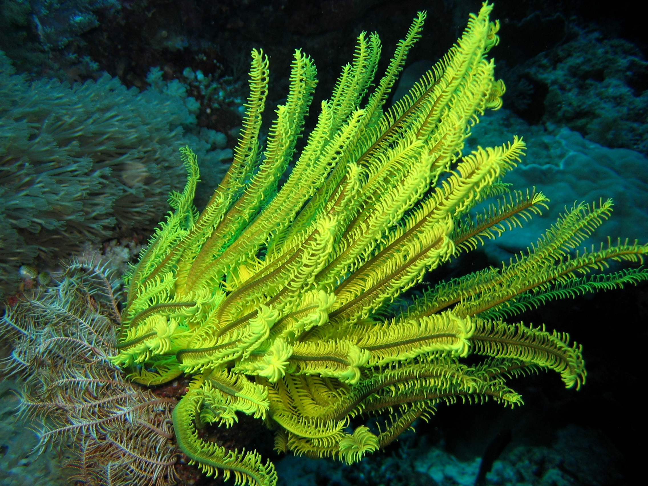 A yellow crinoid. Philippine Islands, Occidental Mindoro, Apo Reef.